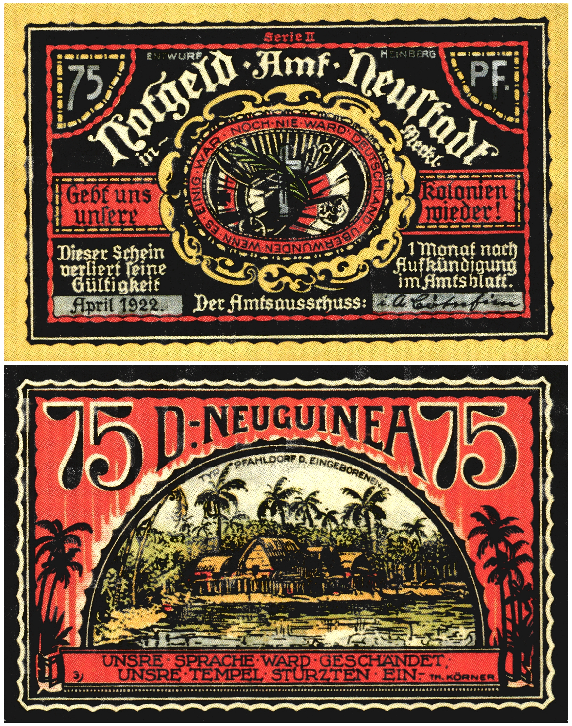 75 Pfennig "Notgeld" banknote (1922) of Neustadt in Mecklenburg, today Neustadt-Glewe. The text complains about the loss of the colony German New Guinea after the Treaty of Versailles. Size: 61 mm x 97 mm.